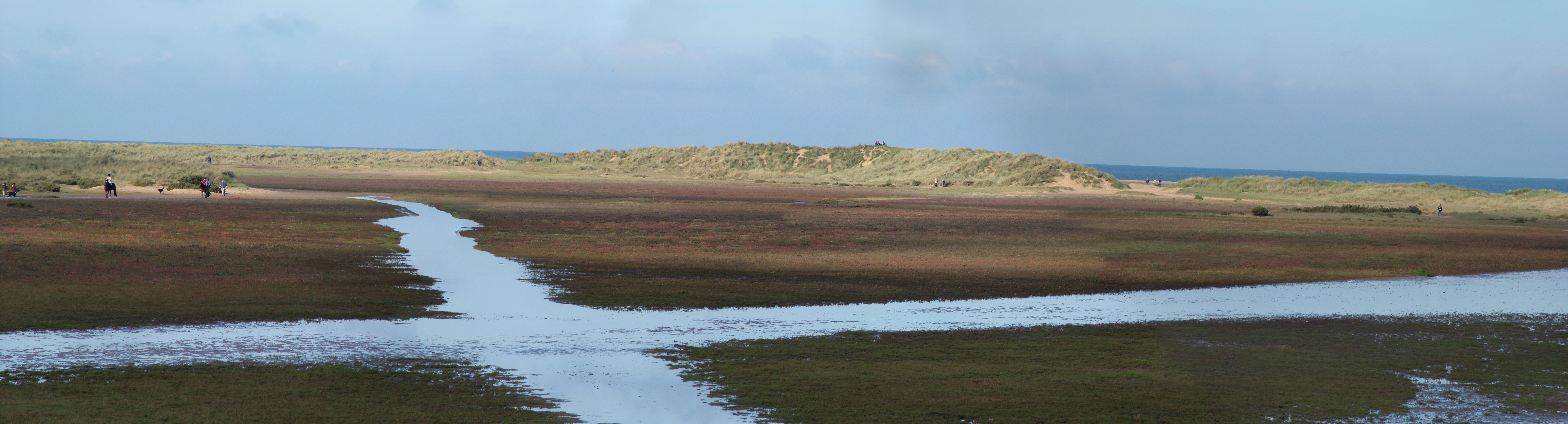 Photo of Holkham beach, taken and photomerged October 2006 by User:Ej159